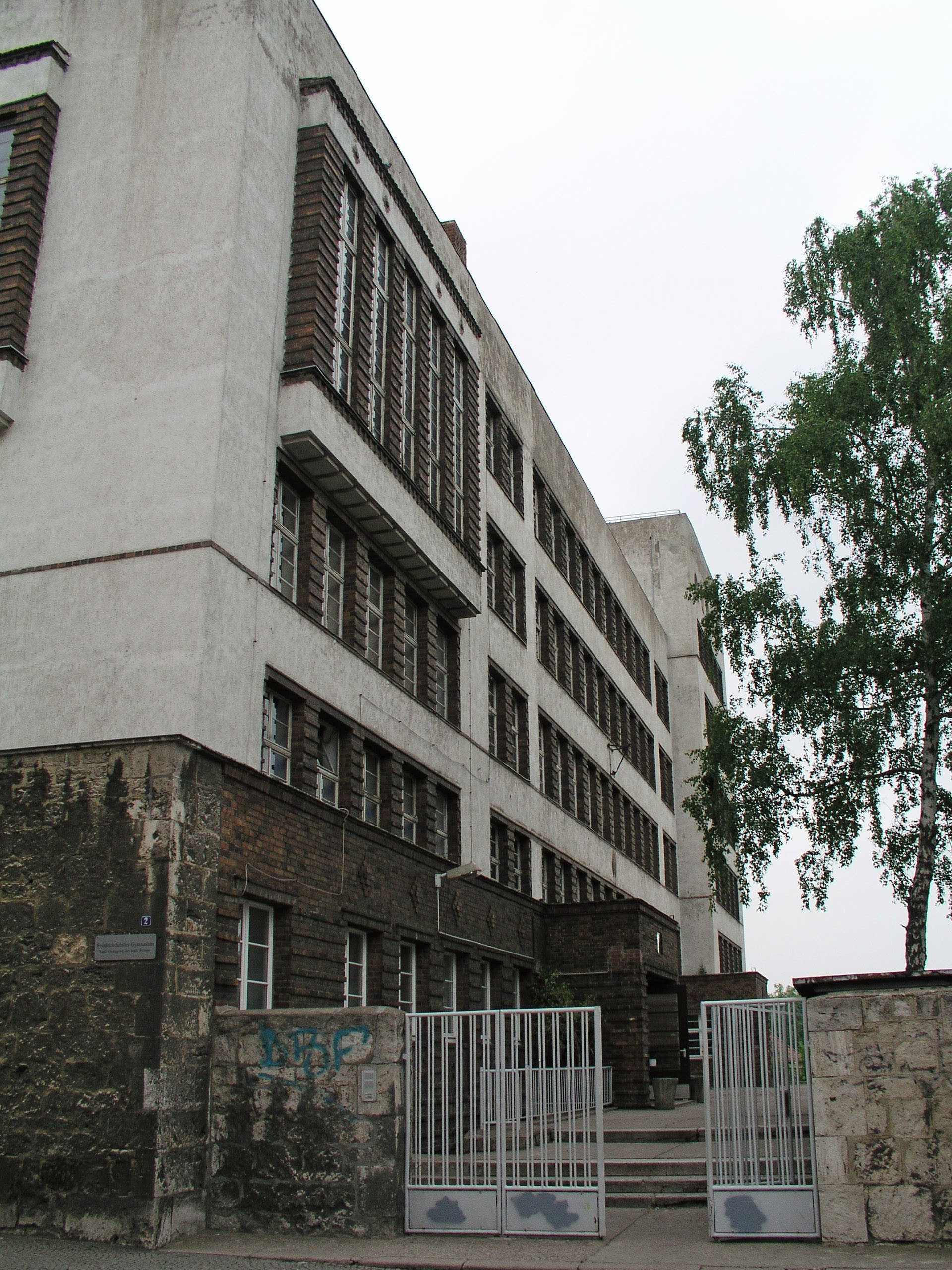 View from South on Friedrich-Schiller-Gymnasium